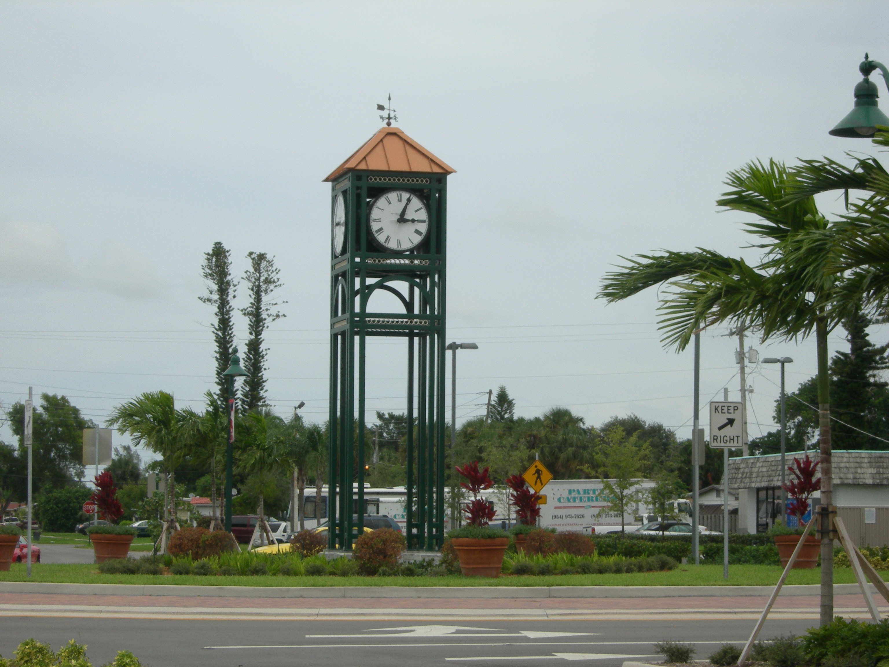 Clock tower in Margate, Florida